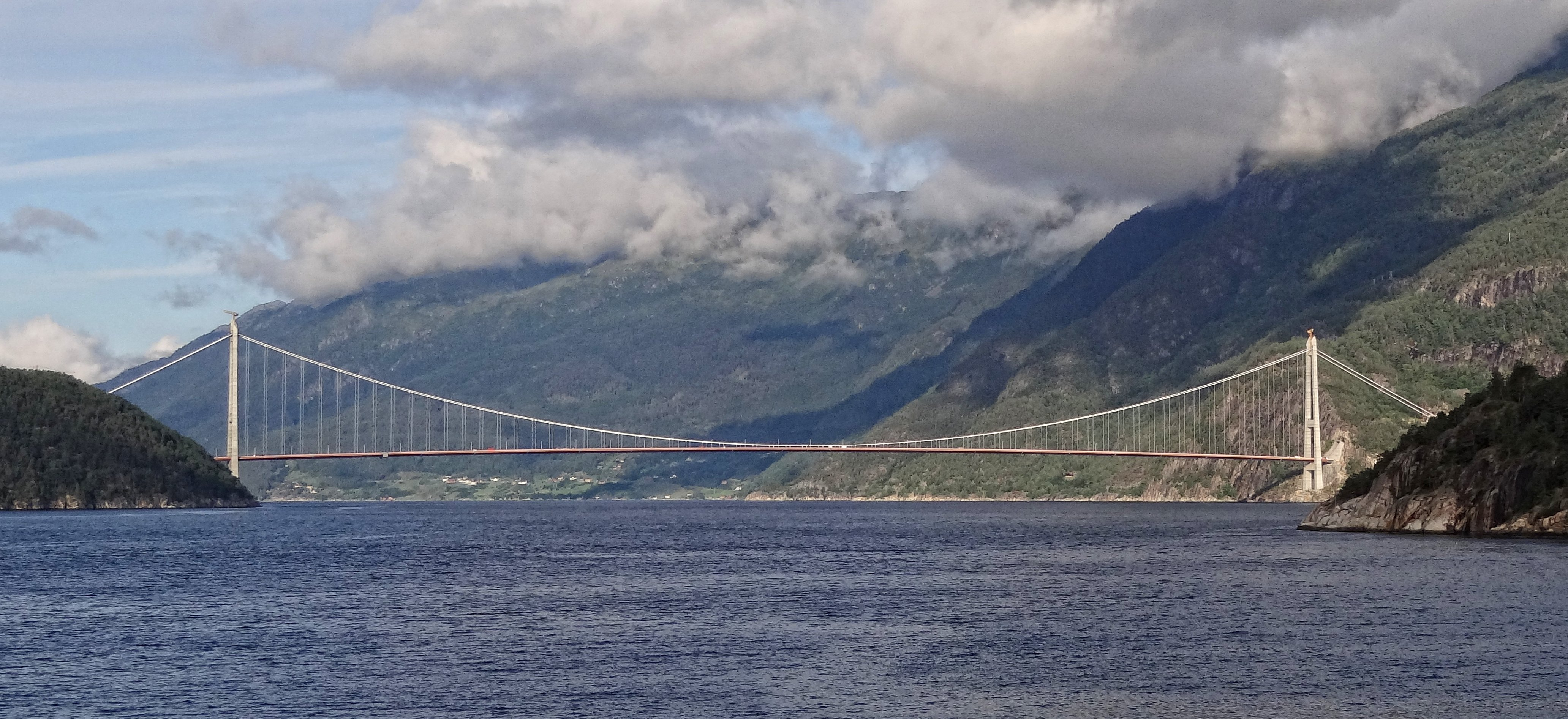 Hardangerbrua less than two weeks before opening for public use, photographed from the east, onboard the ferry between Bruravik and Brimnes.